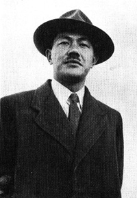 Image Japanese PM Kakuei Tanaka